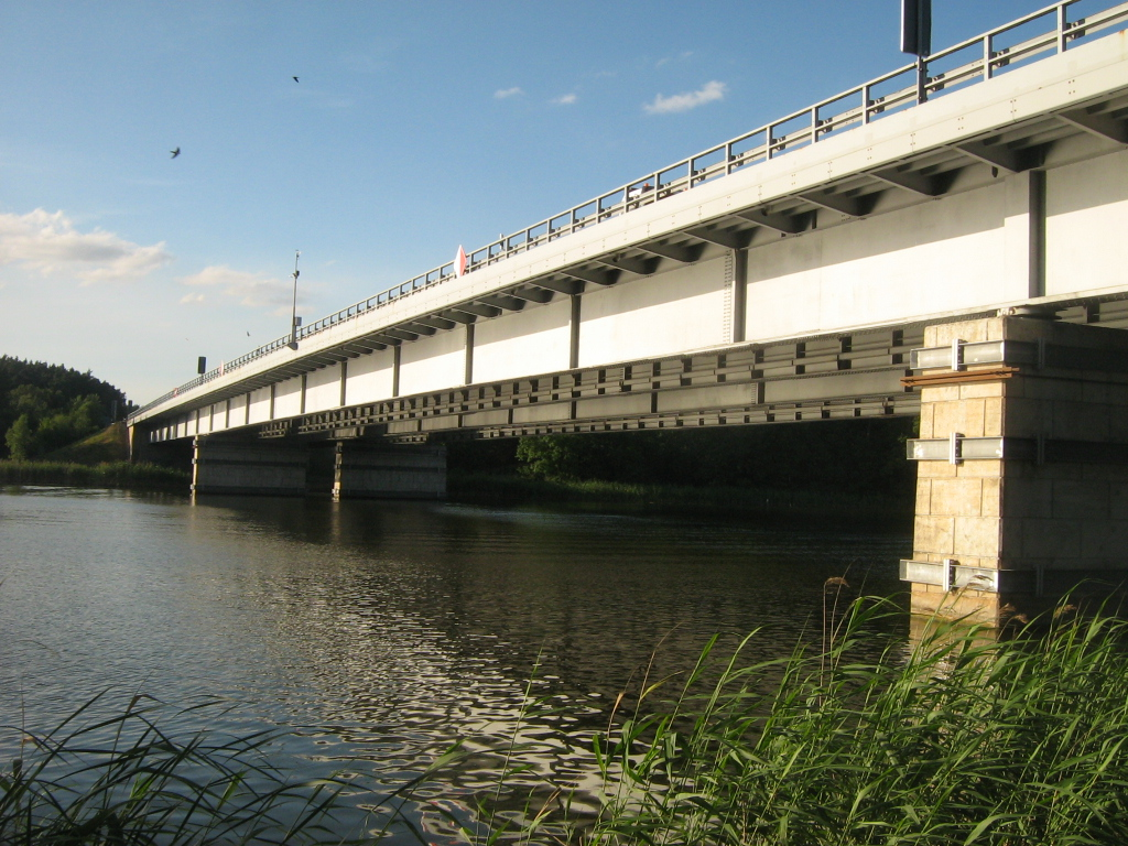 The bridge of the Bundesautobahn 19 over the lake Petersdorfer See in Mecklenburg.